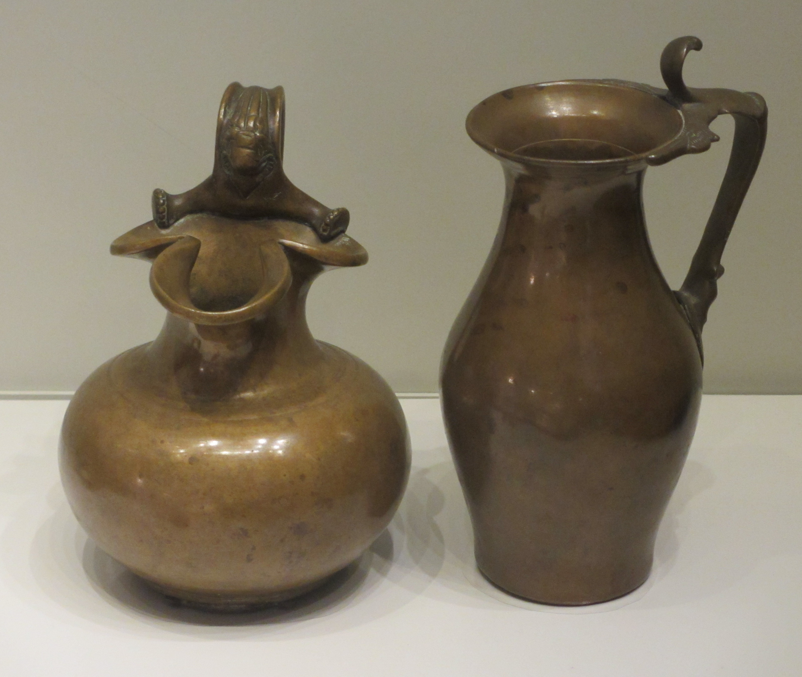 Copper jars. Cave of the Letters, Nahal Hever (132-135 CE). Israel Museum, Jerusalem